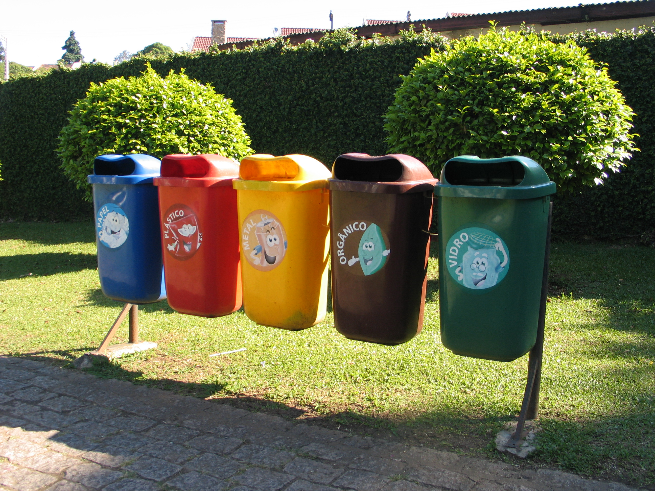 Recycling in Curitiba.JPG